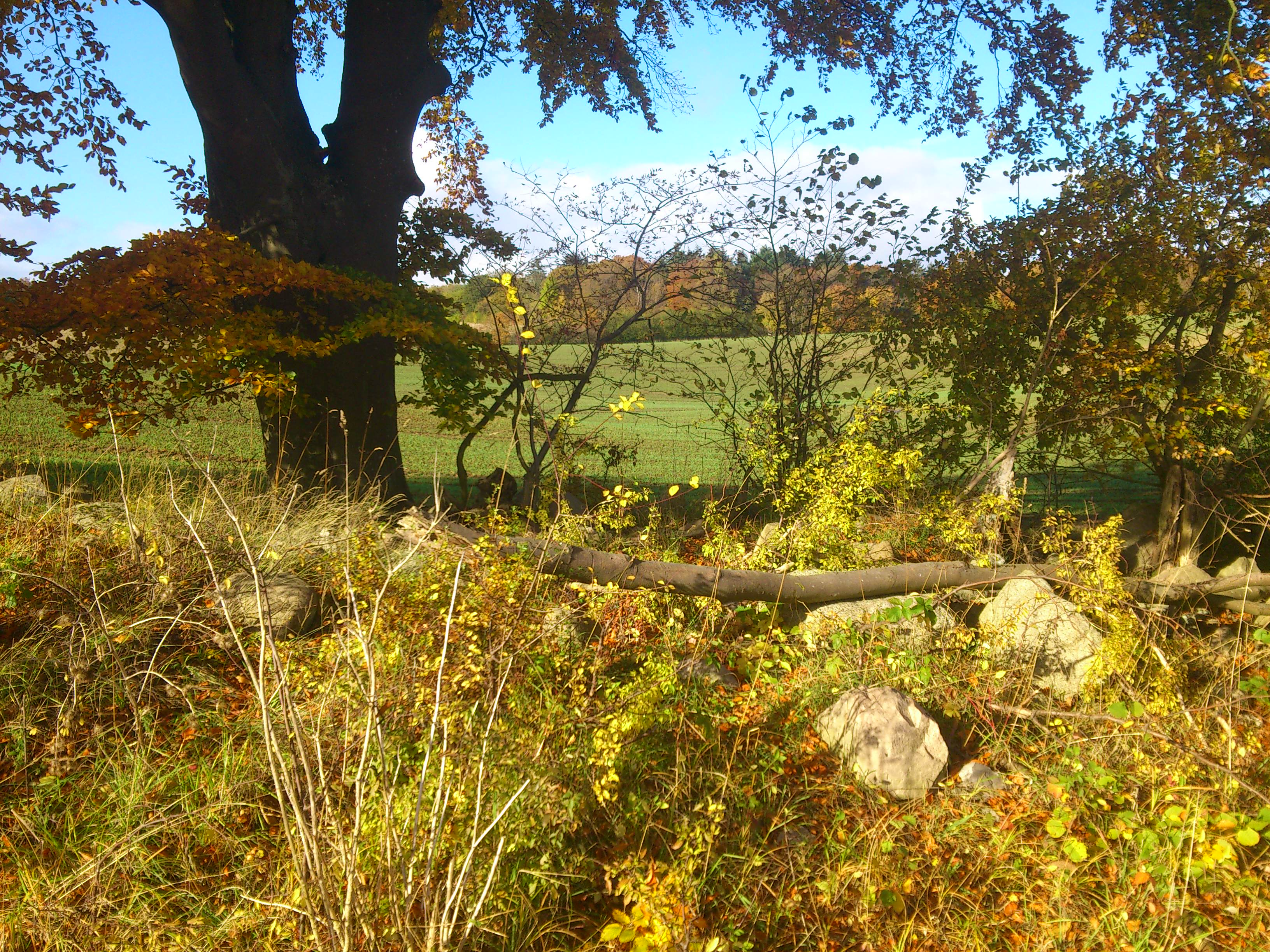 Walking the Skjoldunge (Scyldinga) path through the Bidstrup Forests on mid Zealand, Denmark